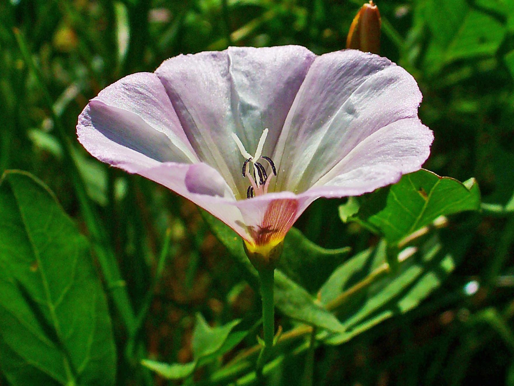 Convolvulus arvensis, Convolvulaceae, Field Bindweed, flower; Karlsruhe, Germany. The fresh aerial parts of the blooming plant are used in homeopathy as remedy: Convolvulus arvensis (Convo-a.)